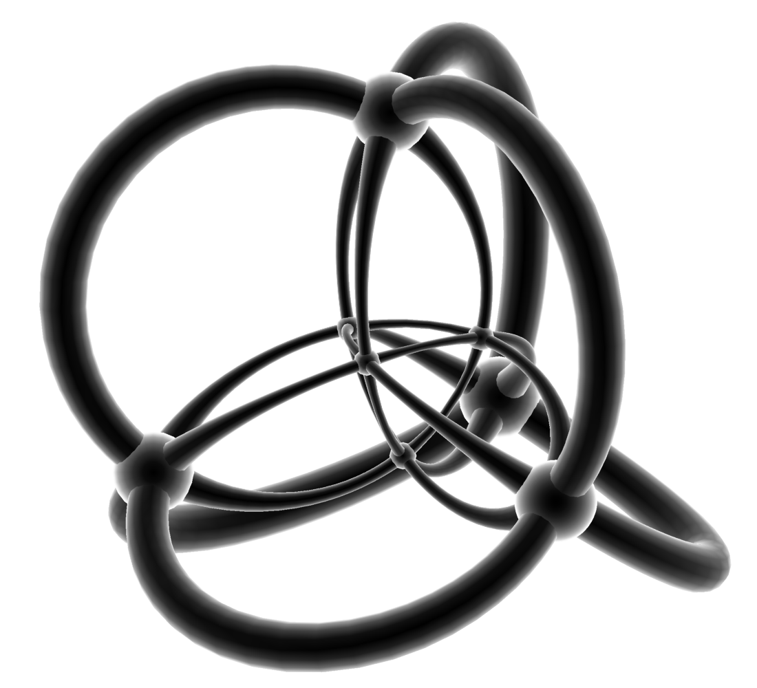 Stereographic projection of the 16-cell, a 4-dimensional polytope. Vertices and edges are shown; faces are not shown. author: Fritz Obermeyer url